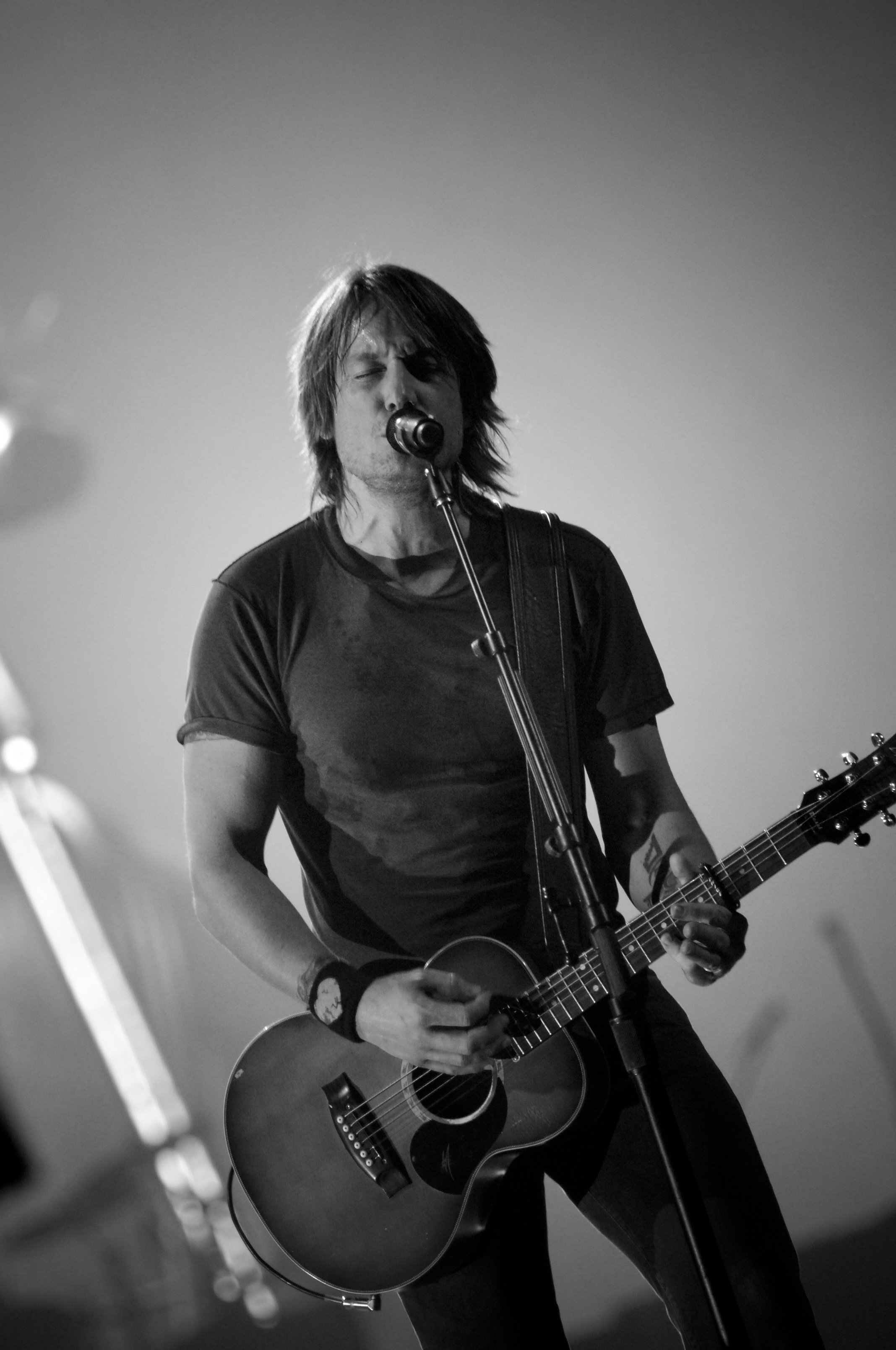 Keith Uurban: Sommet Center, Nashville TN